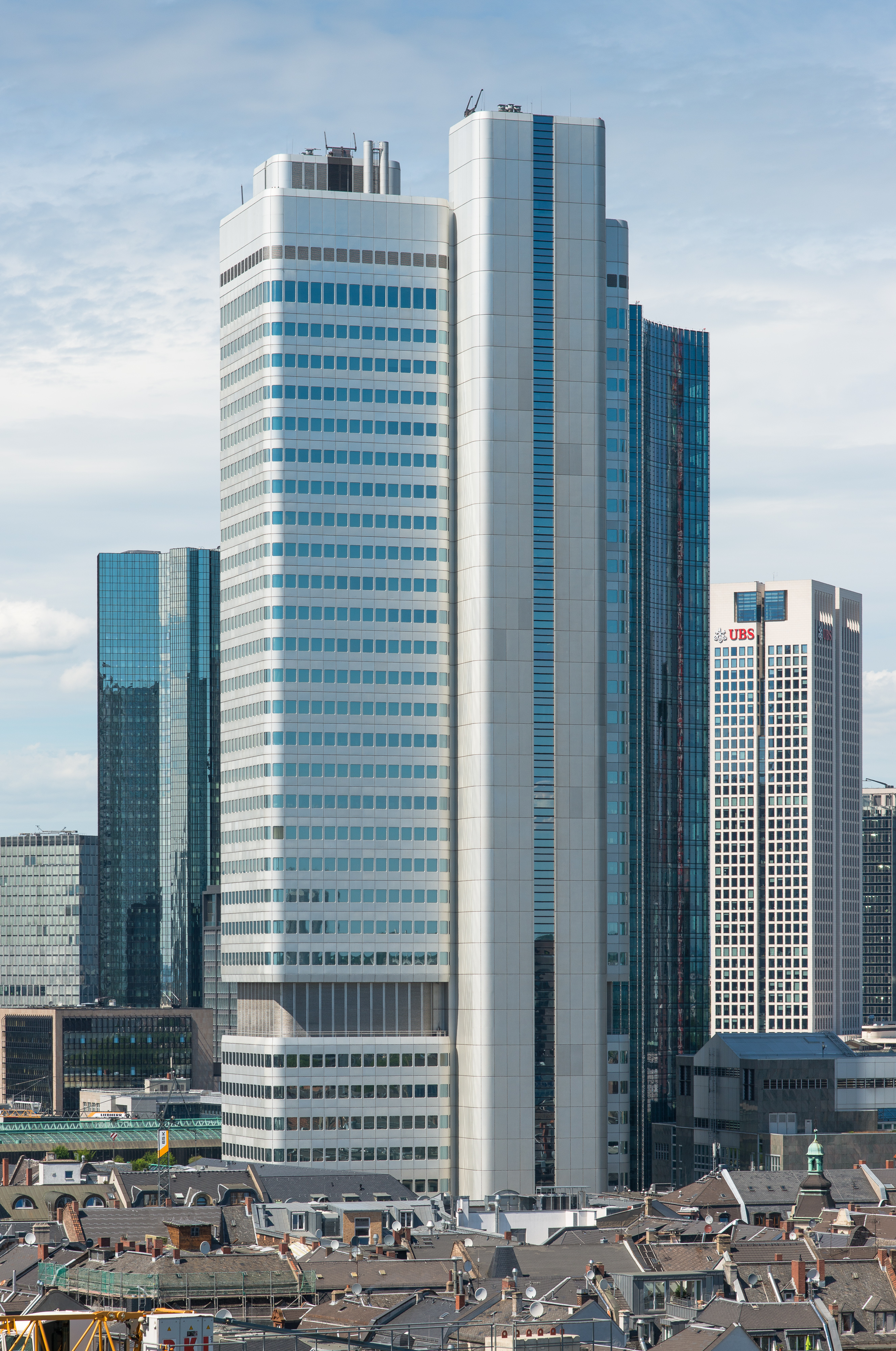 Frankfurt am Main, view from West over most of the central bank district's high-rises.